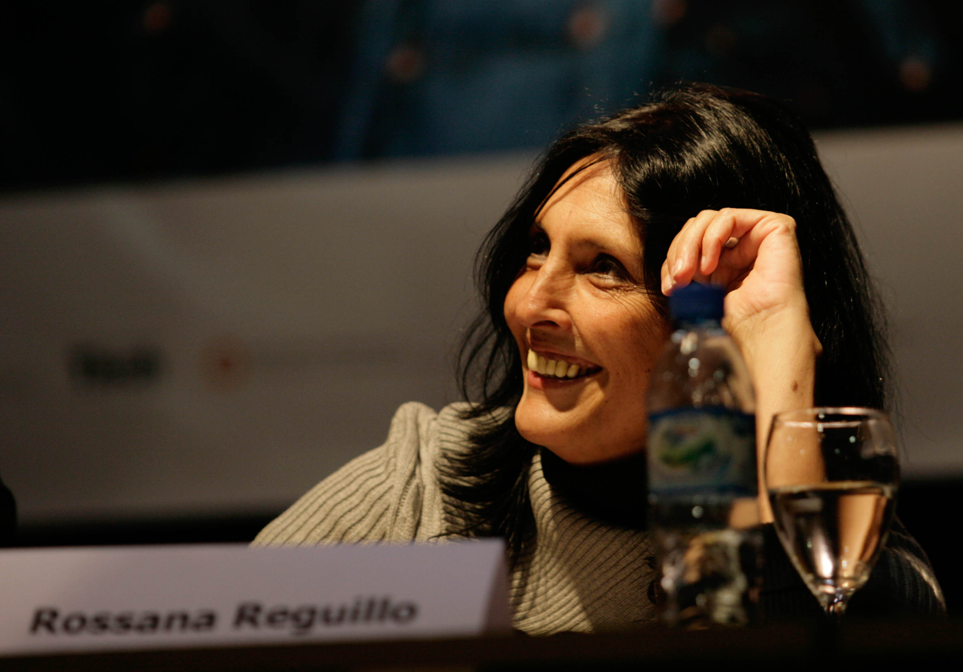 Rossana Reguillo at the 'Condensations and Displacements: The Politics of Fear on Contemporary Bodies' event. Hemispheric Institute of Performance and Politics. Argentina, June 13, 2007.